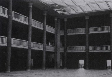 The large auditorium of what is now known as Emdrupborg in Emdrup, Copenhagen, Denmark